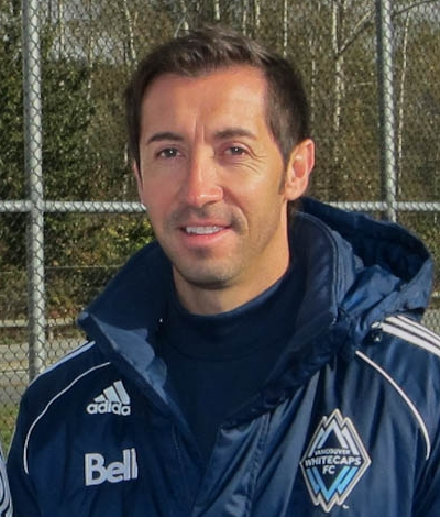 Martin Rennie at Burnaby Lake Sports Complex, in Burnaby, British Columbia